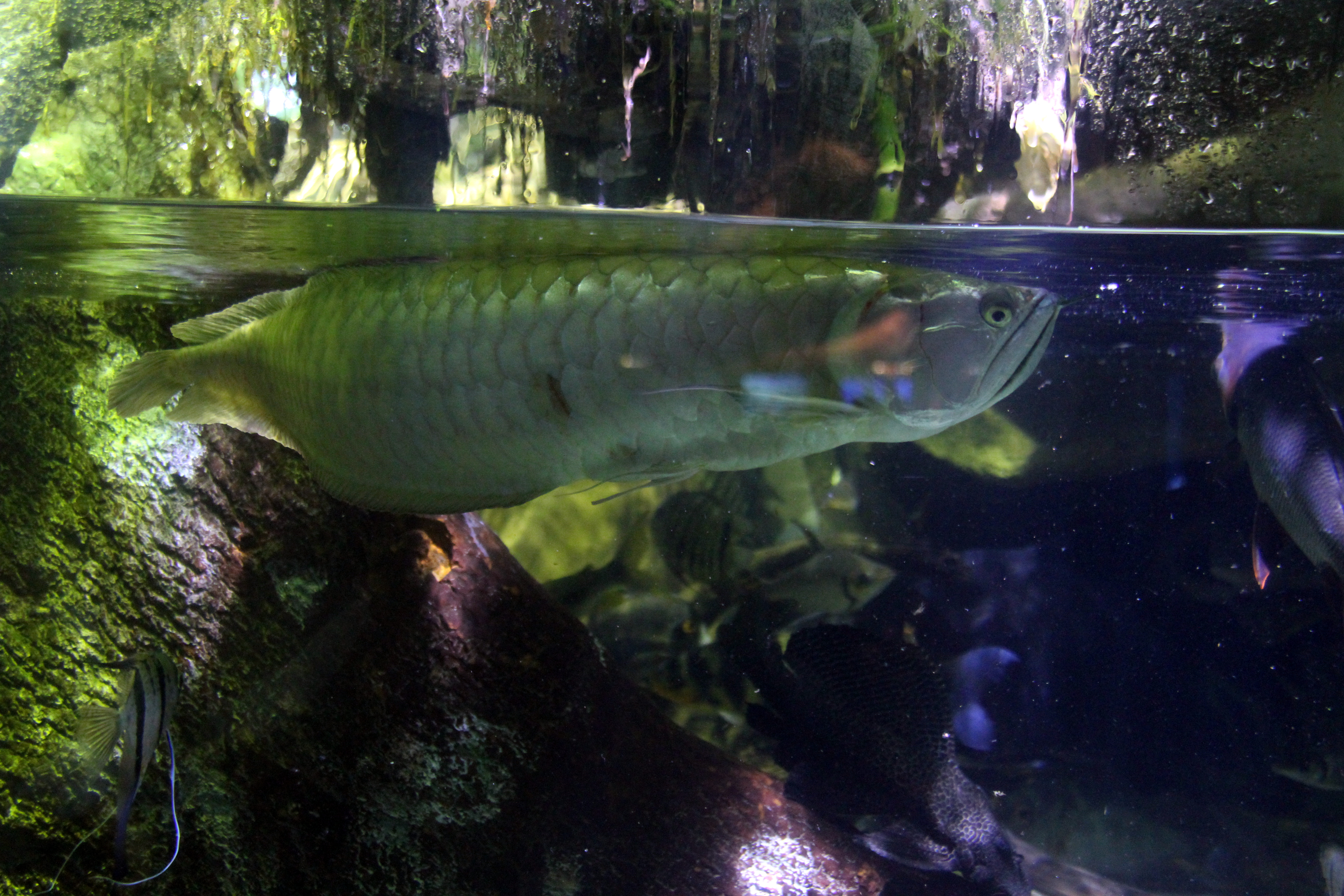 Silver arowana is found in Amazon River basin, it can jump out of the water to capture its prey.